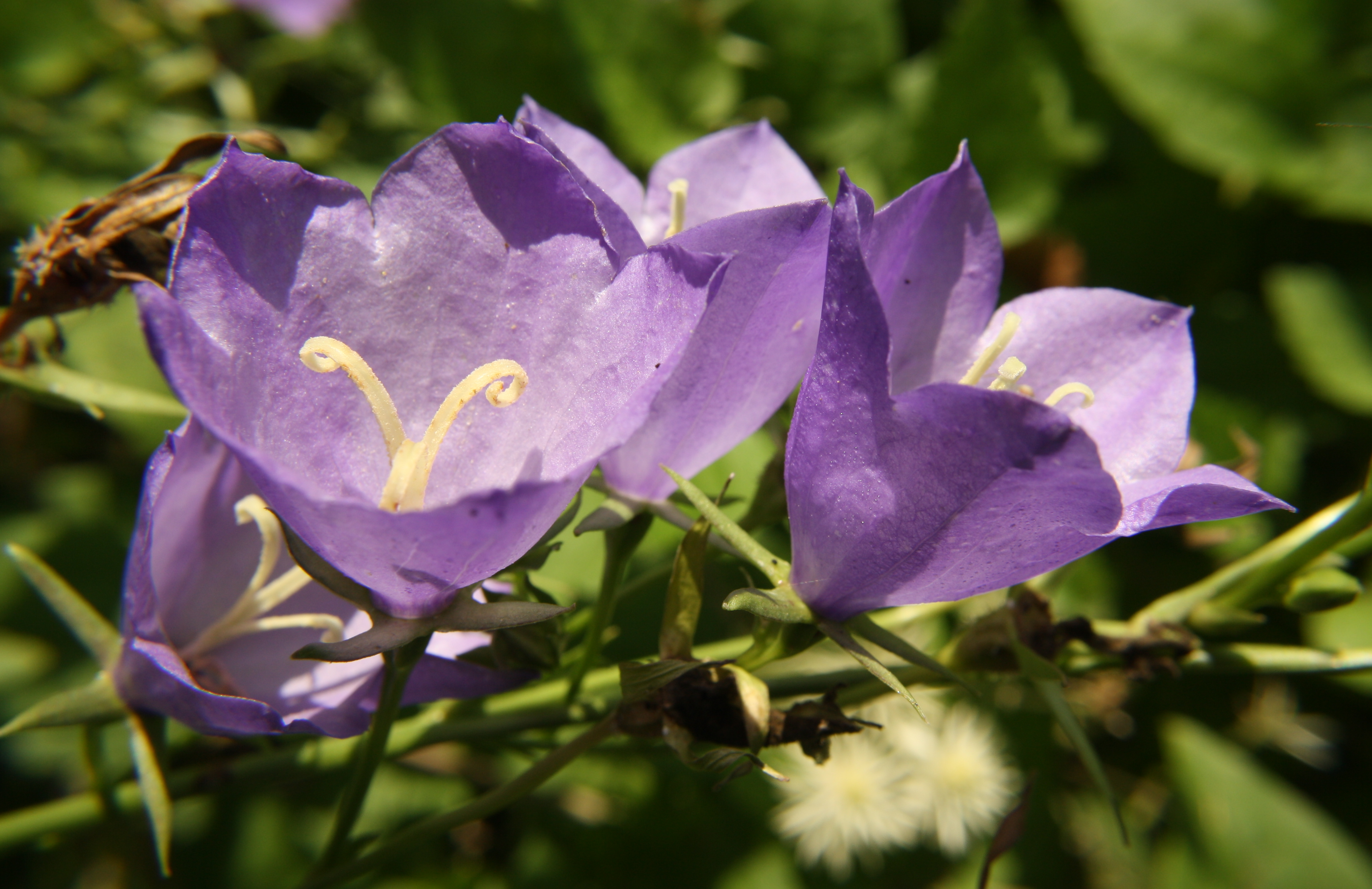 Campanula carpathica, in the wild, the woods along the banks of the Dâmboviţa River, Southern Romania